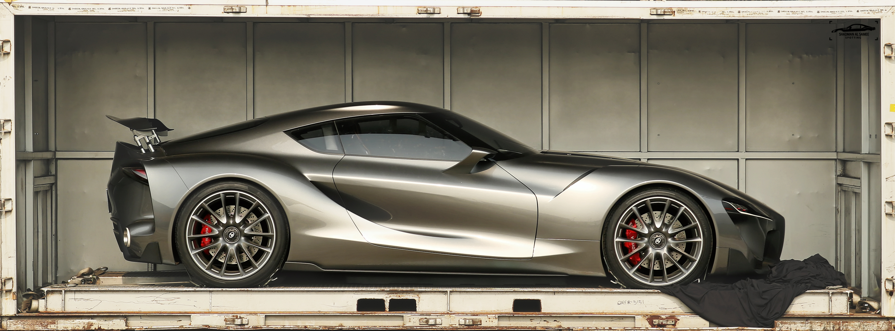 ICCB/ Dhaka Motor Show 2018: While this one might not have an engine and power train, there is no denying of the fact that this is sexy!